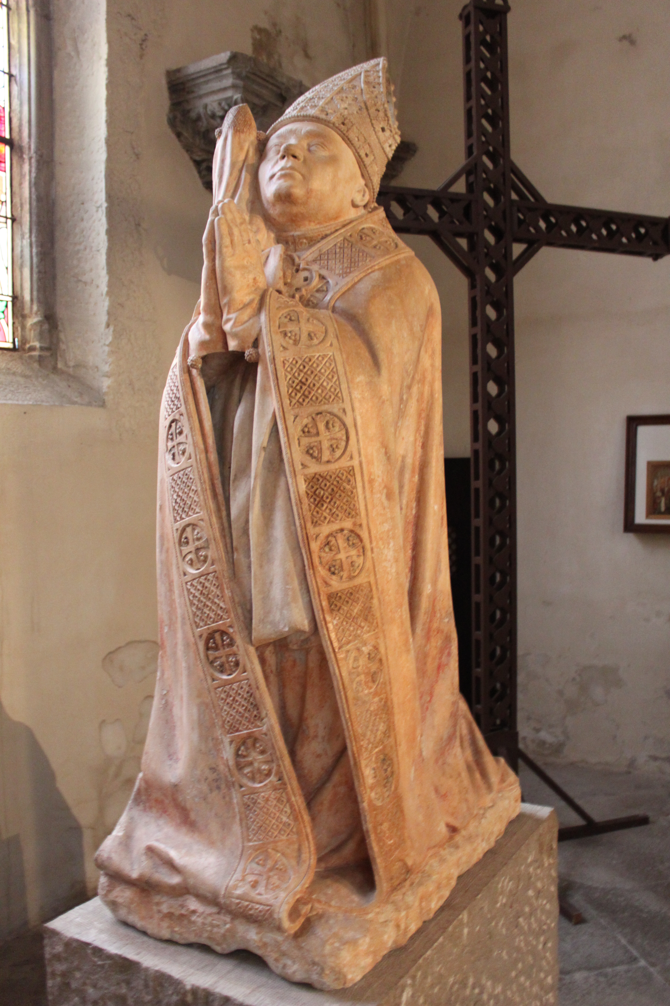 Poligny, Jura, France